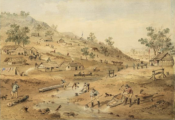 Diggings in the Mount Alexander district of Victoria in 1852, watercolour on paper, 24.5 x 35 cm, by ST Gill